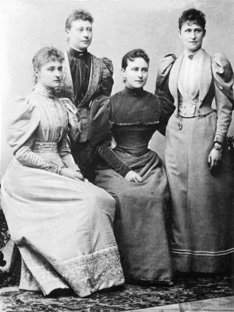 Alix, Victoria, Ella, Irene